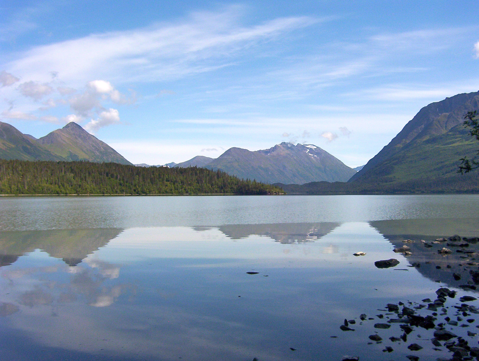 Upper Trail Lake, Alaska with Chugach Mountains reflected Licensing Category:Images of Alaska